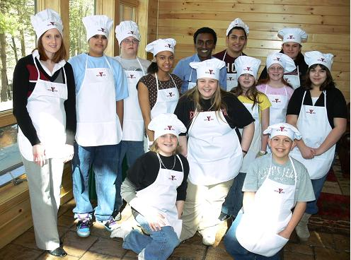 Campers at YMCA camp in Huguenot, NY make their own maple syrup